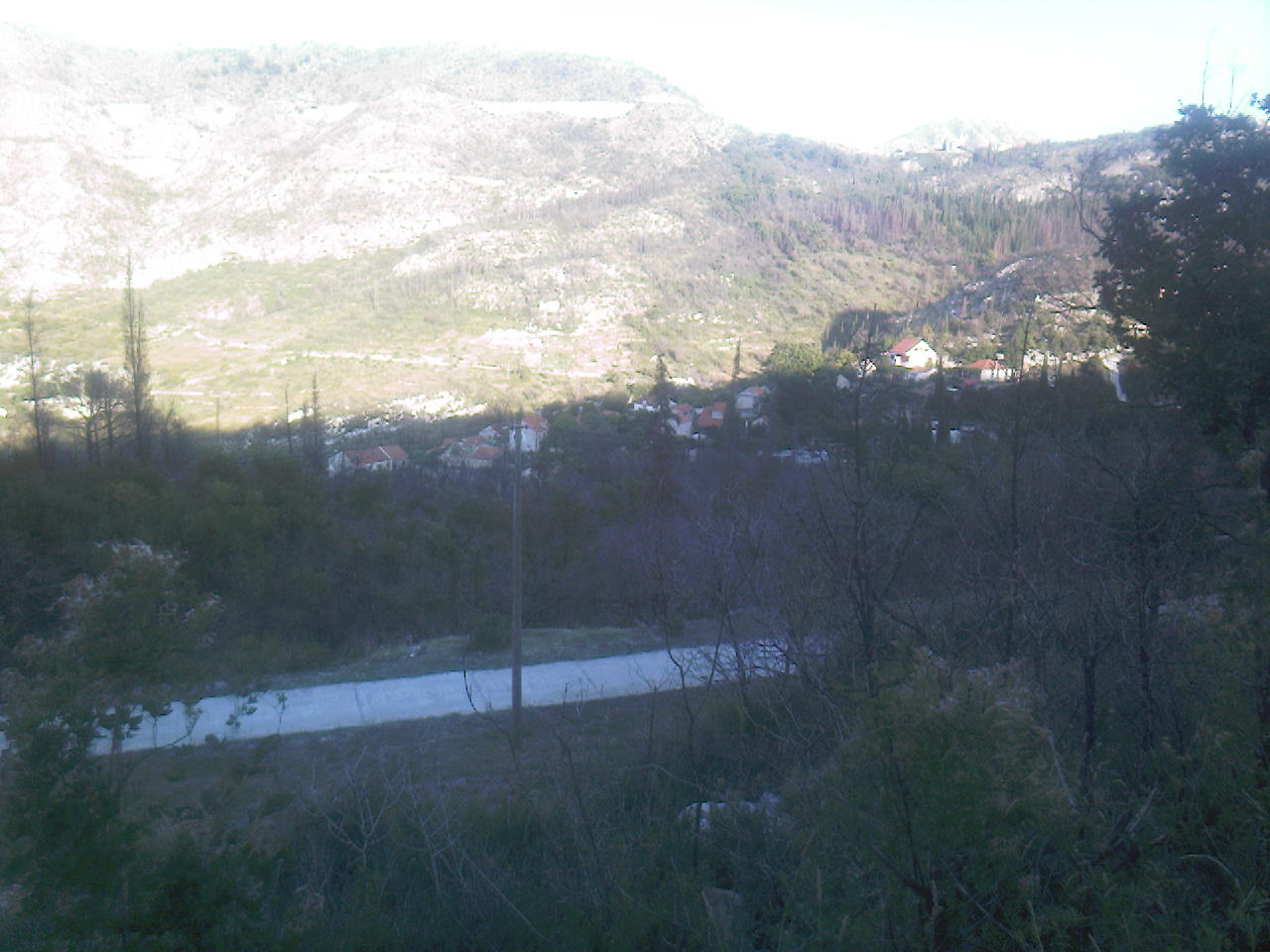 Šumet village near Dubrovnik